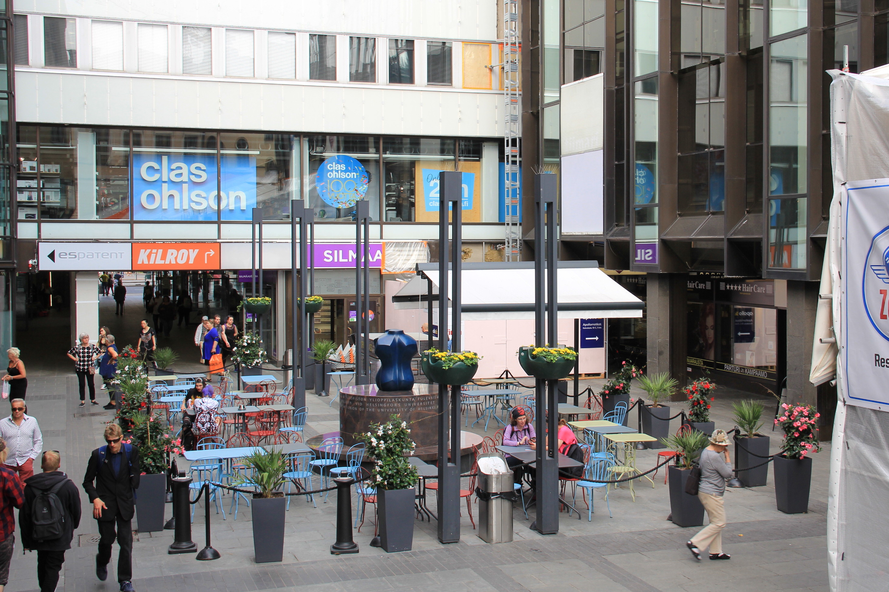 Kaivopiha shopping mall, Helsinki, Finland. - Inner yard with Citytalo building (right) and Kaivotalo-building (center). Blue statue is Björn Weckström's (b. 1935) Yhdessä ("Together"), unveiled in 2018.